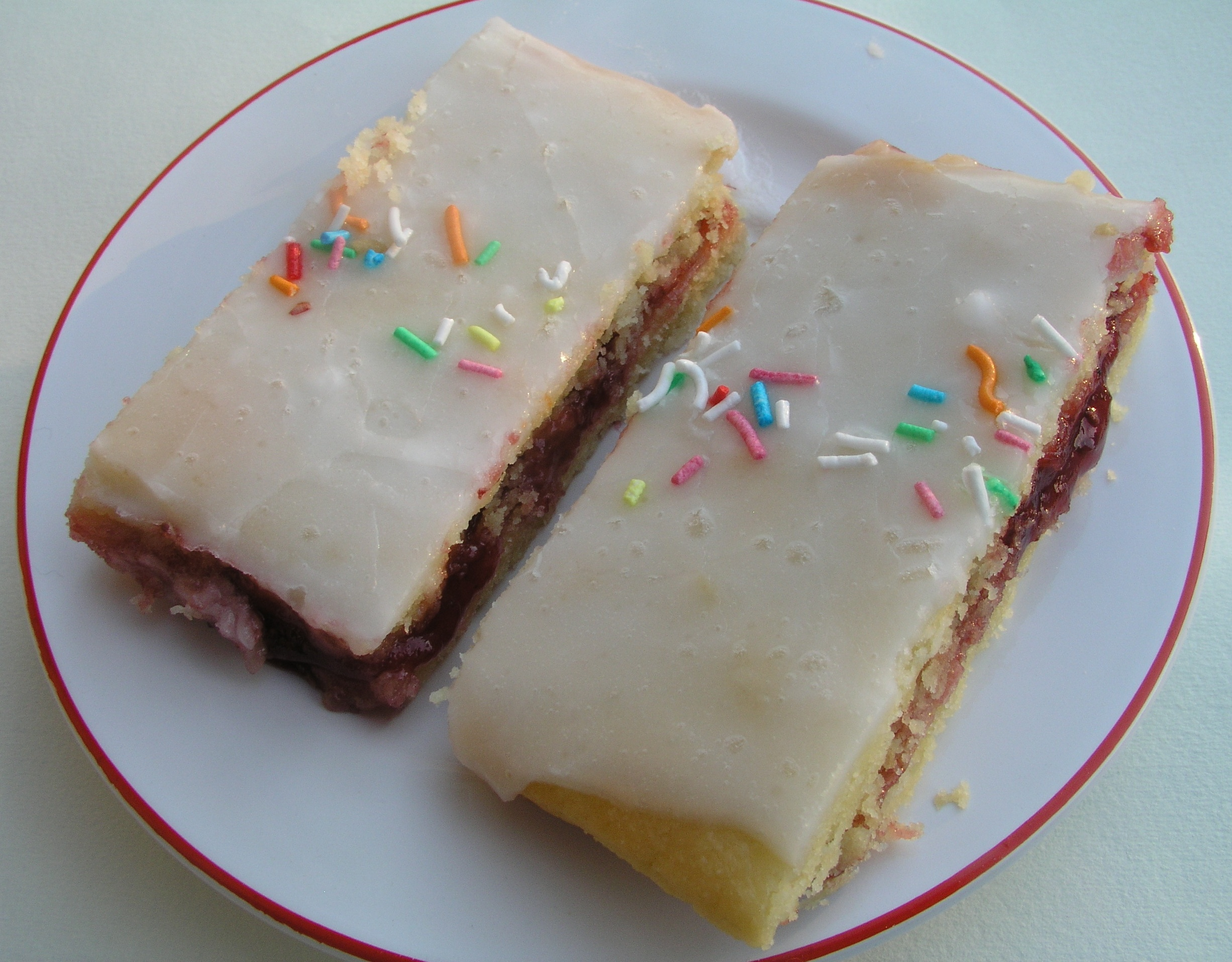 Danish raspberry slice (hindbærsnitte)